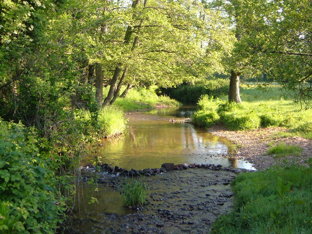 River Tale near Cadhay. Looking upstream towards the bridge for the Taleford - Ottery footpath past a minor water engineering work.